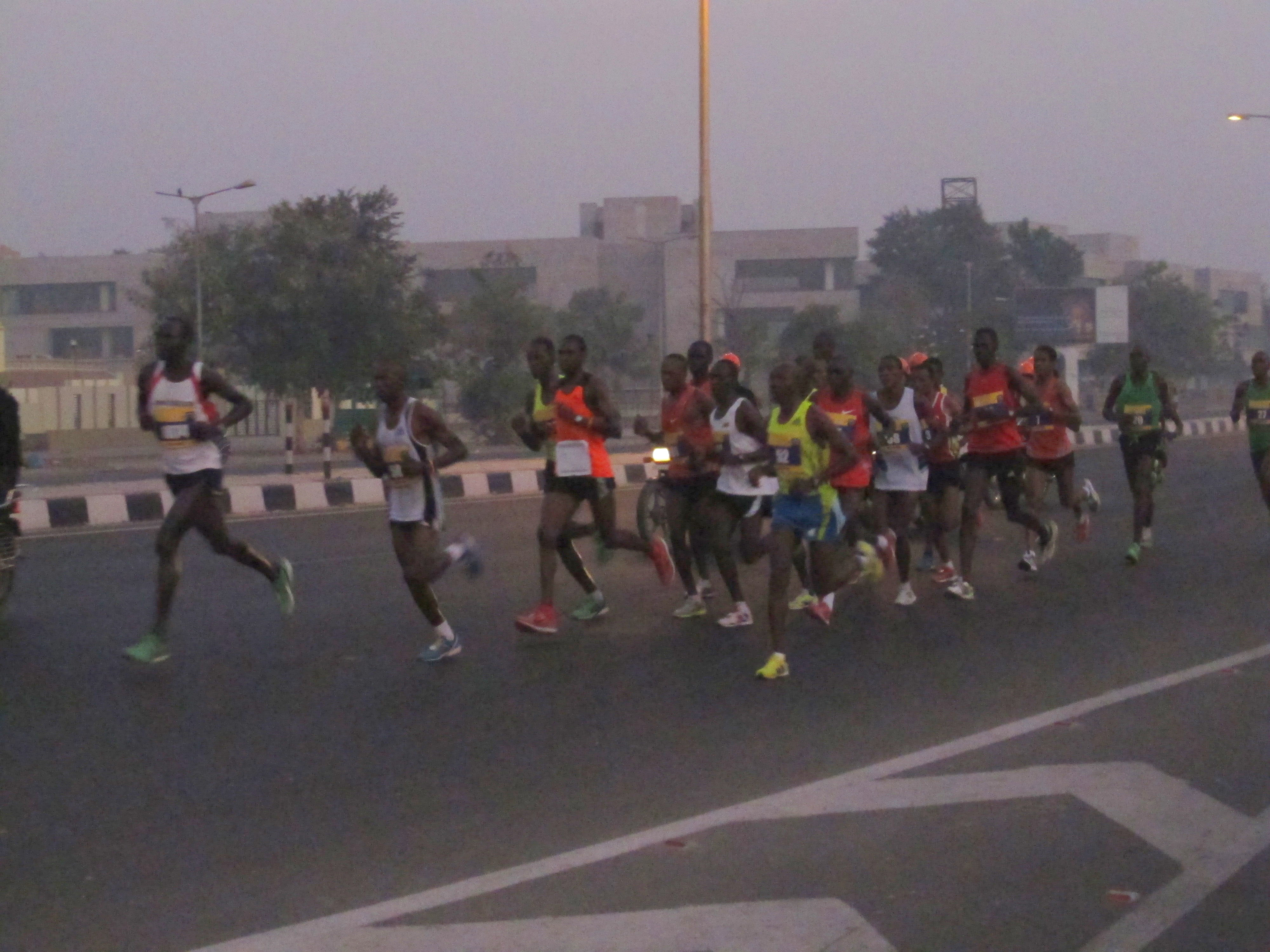 marathon hold at ahmedabad